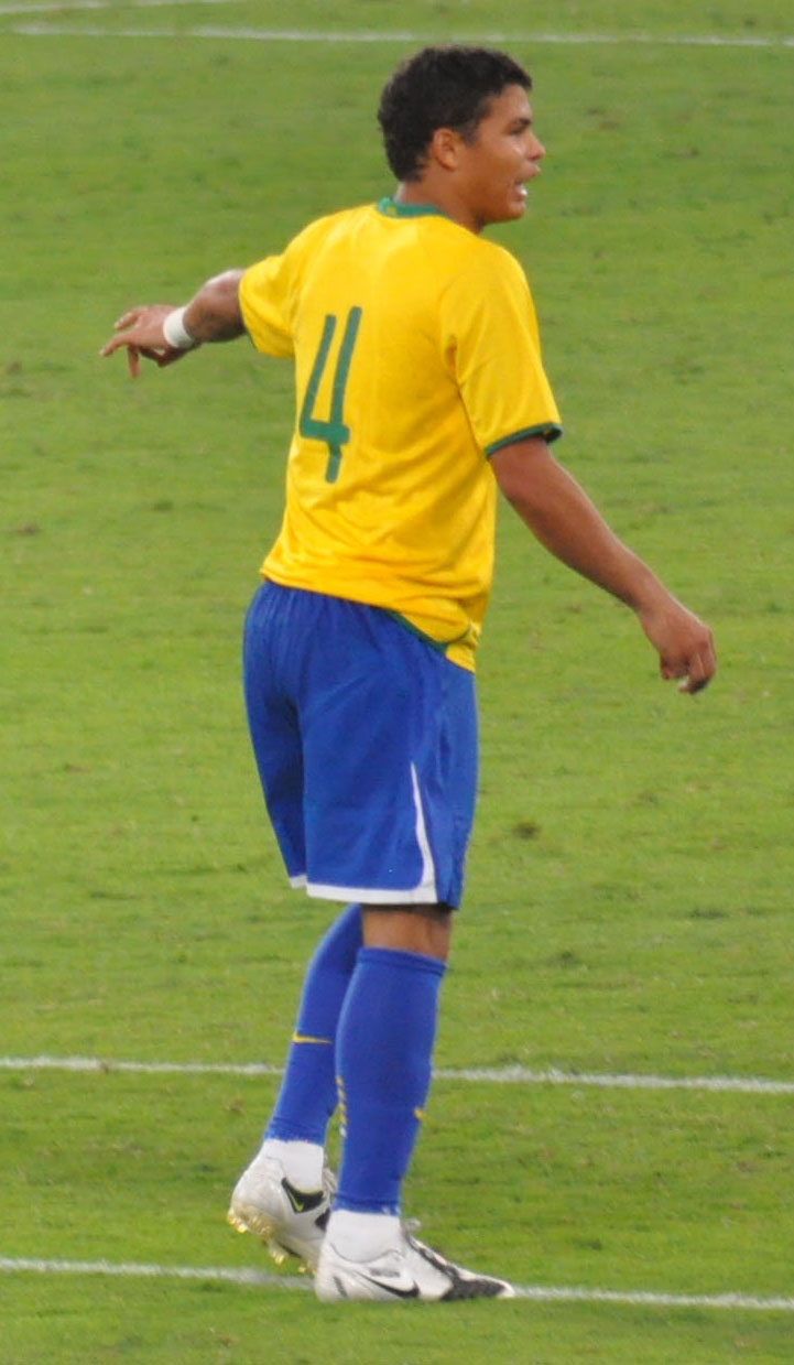 Thiago Silva during Brazil-England in Doha, 14th november 2009